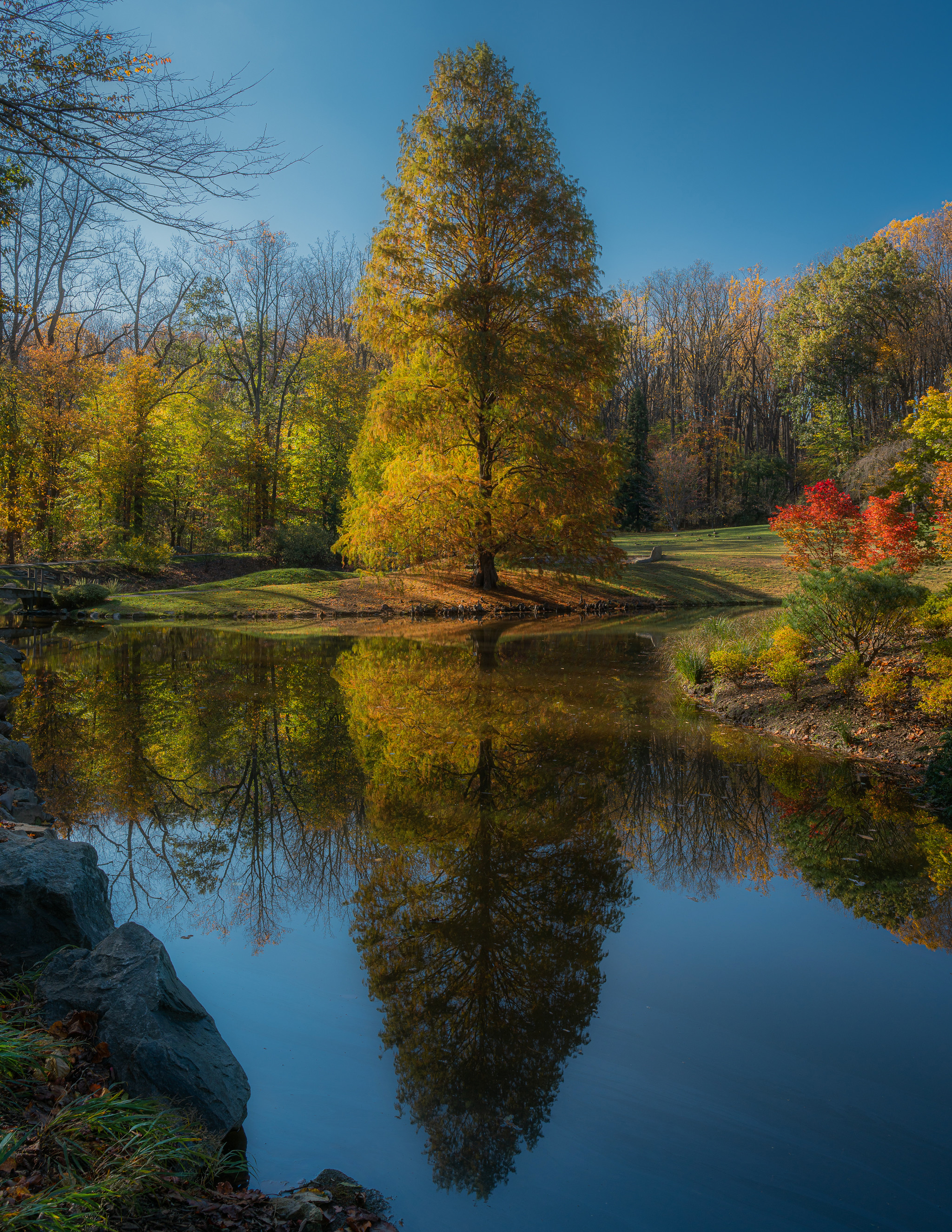 Taken at Brookside Gardens Instagram 500px Facebook Buy Prints